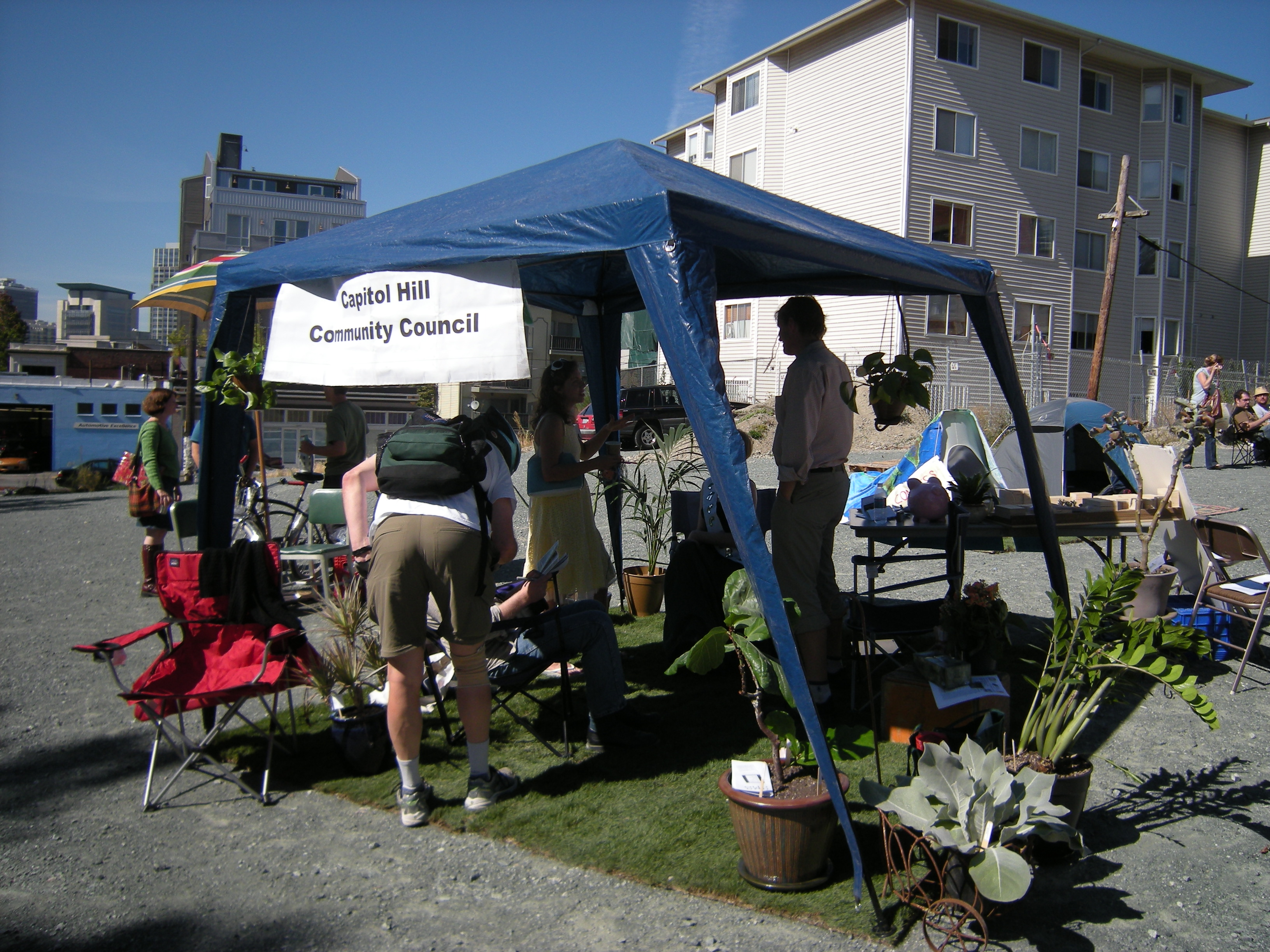 PARK(ing) Day, Capitol Hill, Seattle, Washington. This is in the now-vacant lot where numerous buildings were demolished March 2008, see File:Seattle Bimbos 01.jpg.